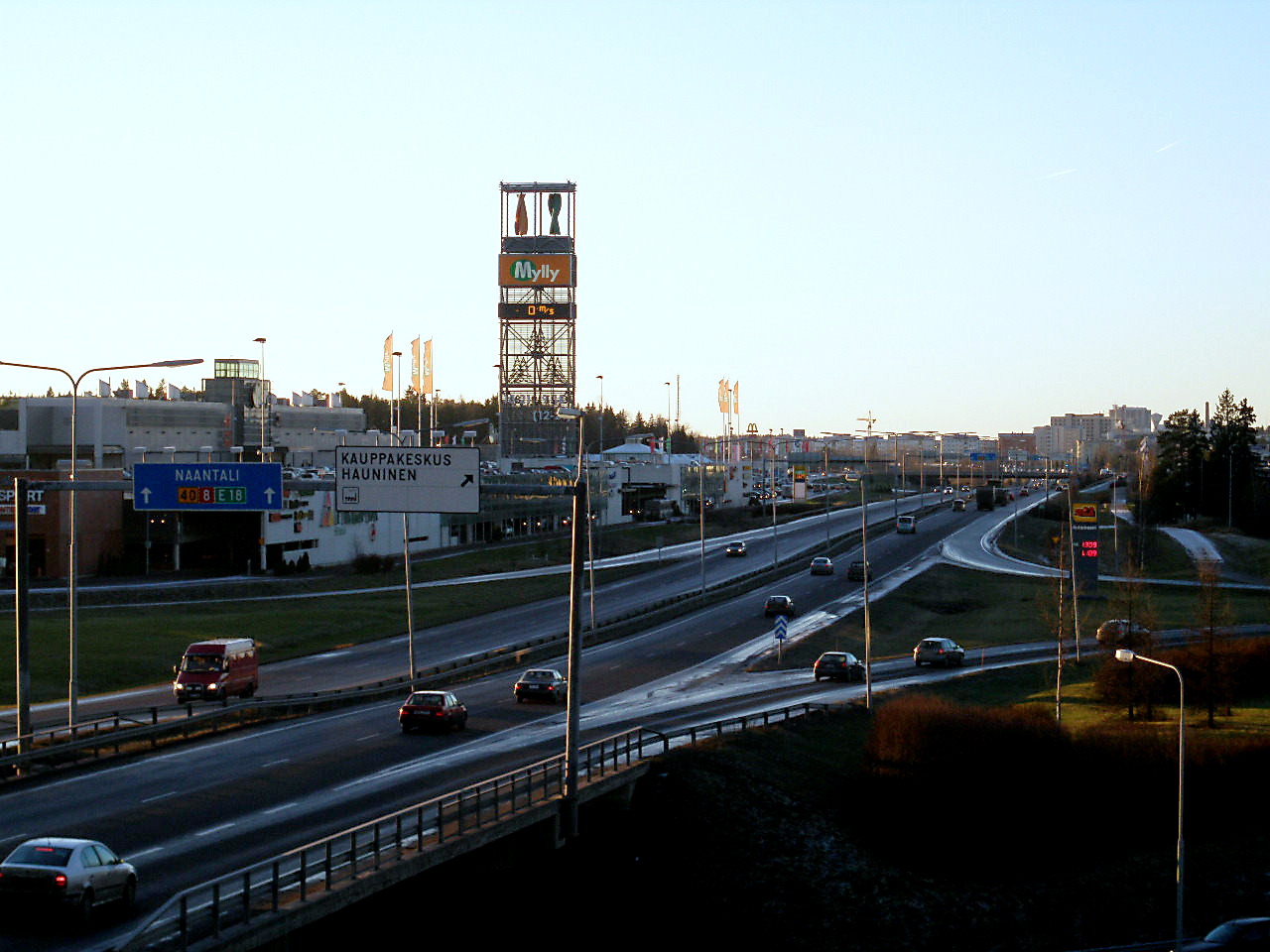 The highway 40 (E18; the ring road surrounding Turku) and shopping mall Mylly in Raisio, Finland, just before the center of Raisio.